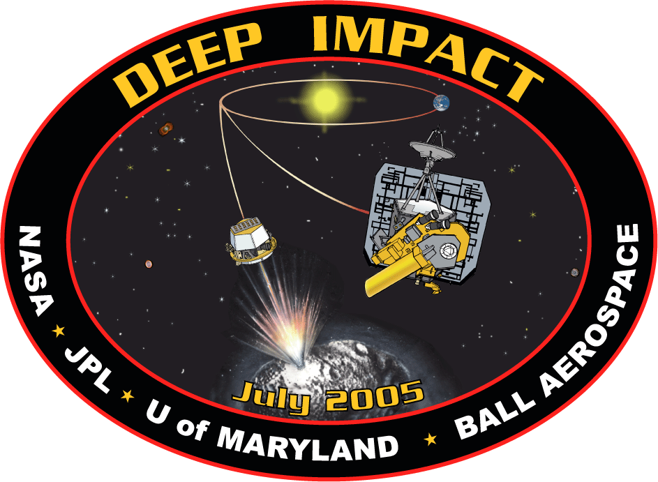 Deep Impact mission patch.